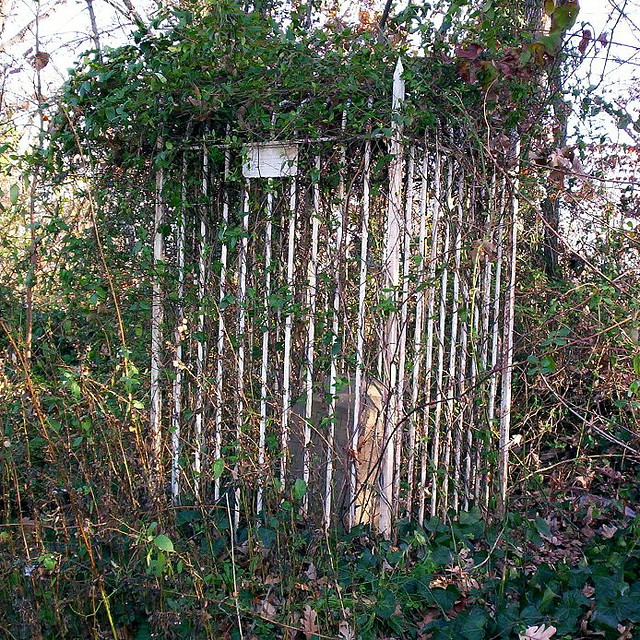 Boundary stone of the District of Columbia SE 1 - that is it is located 1 mile southwest of the easternmost DC boundary stone.